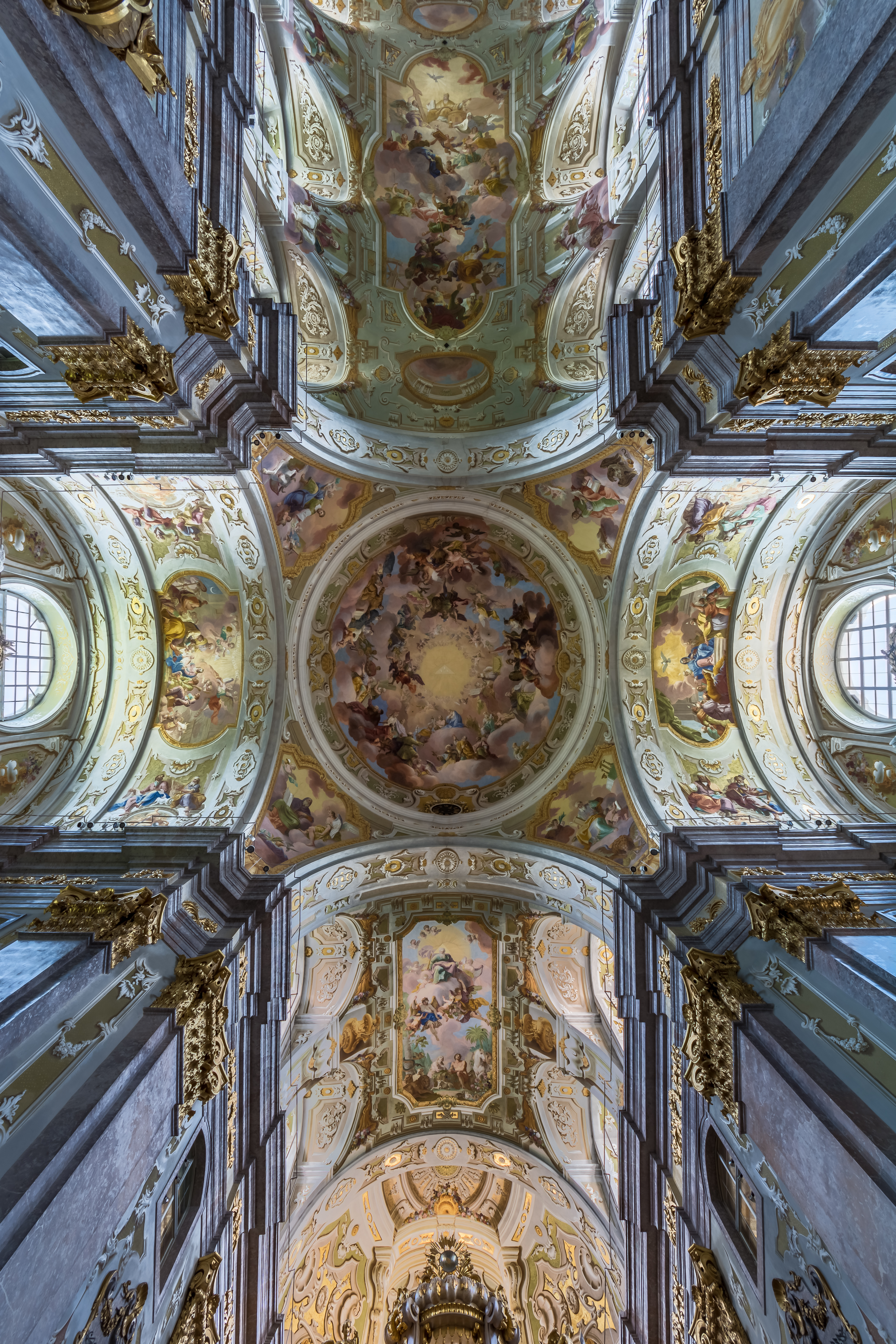 Ceiling frescos in Sonntagberg Basilica (Lower Austria) by Daniel Gran (1738–43): Church Militant and Church Triumpant in the nave (top) The Creation of Adam and Eve by God the Father in the presbytery (bottom) The Nativity of Christ and The Descent of the Holy Spirit in the transept arms The Veneration of the Holy Trinity in the dome